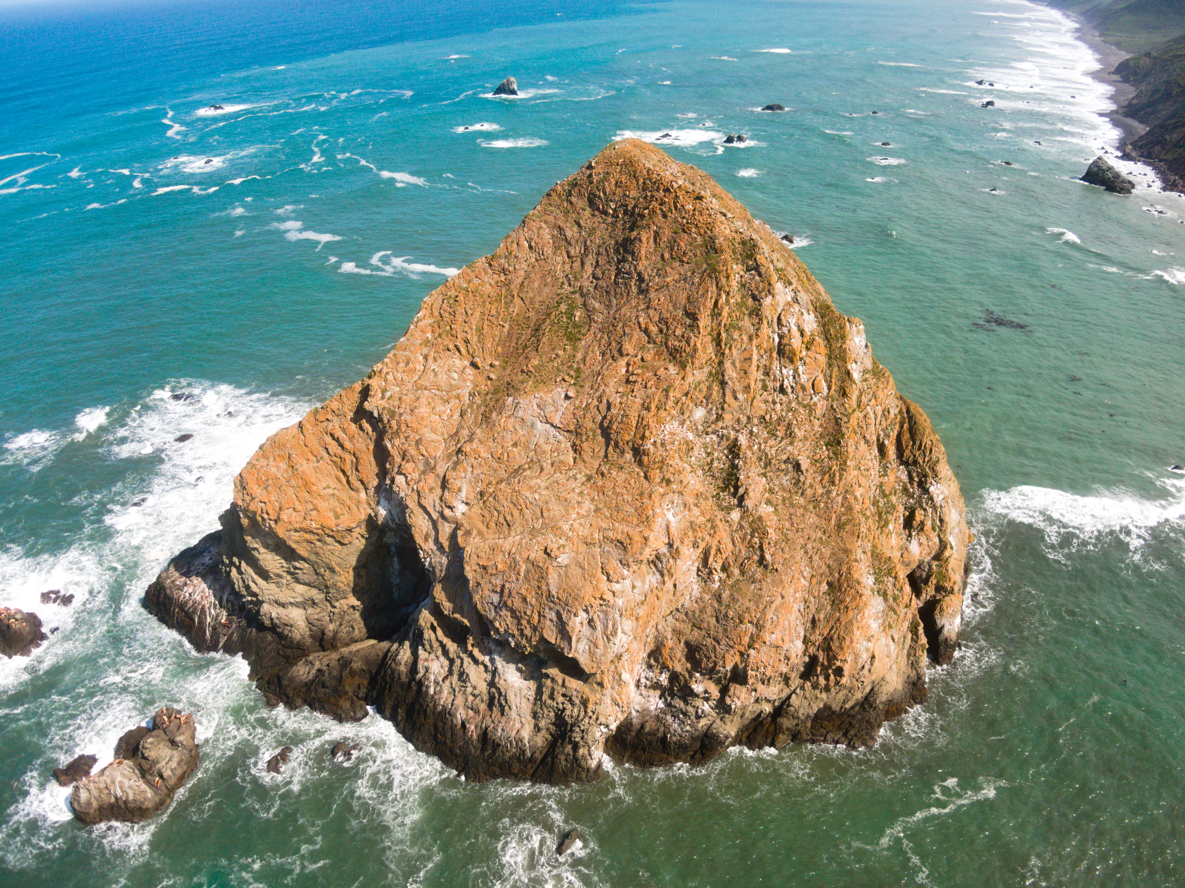 Sugarloaf Island located at the far westerly tip of Cape Mendocino, California. April 2020